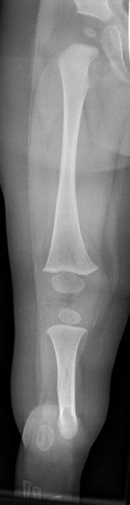 Fibular Hemimelia Type II in a 18 month old